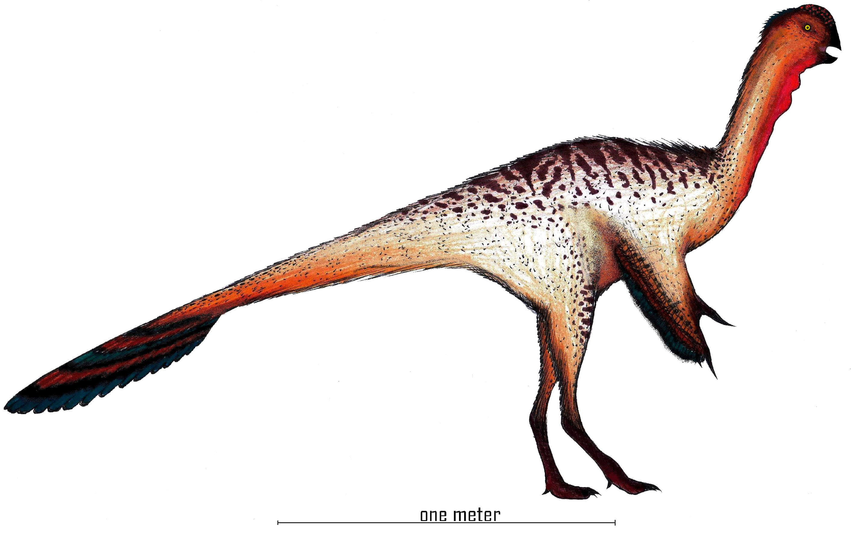 Nankagia Restoration